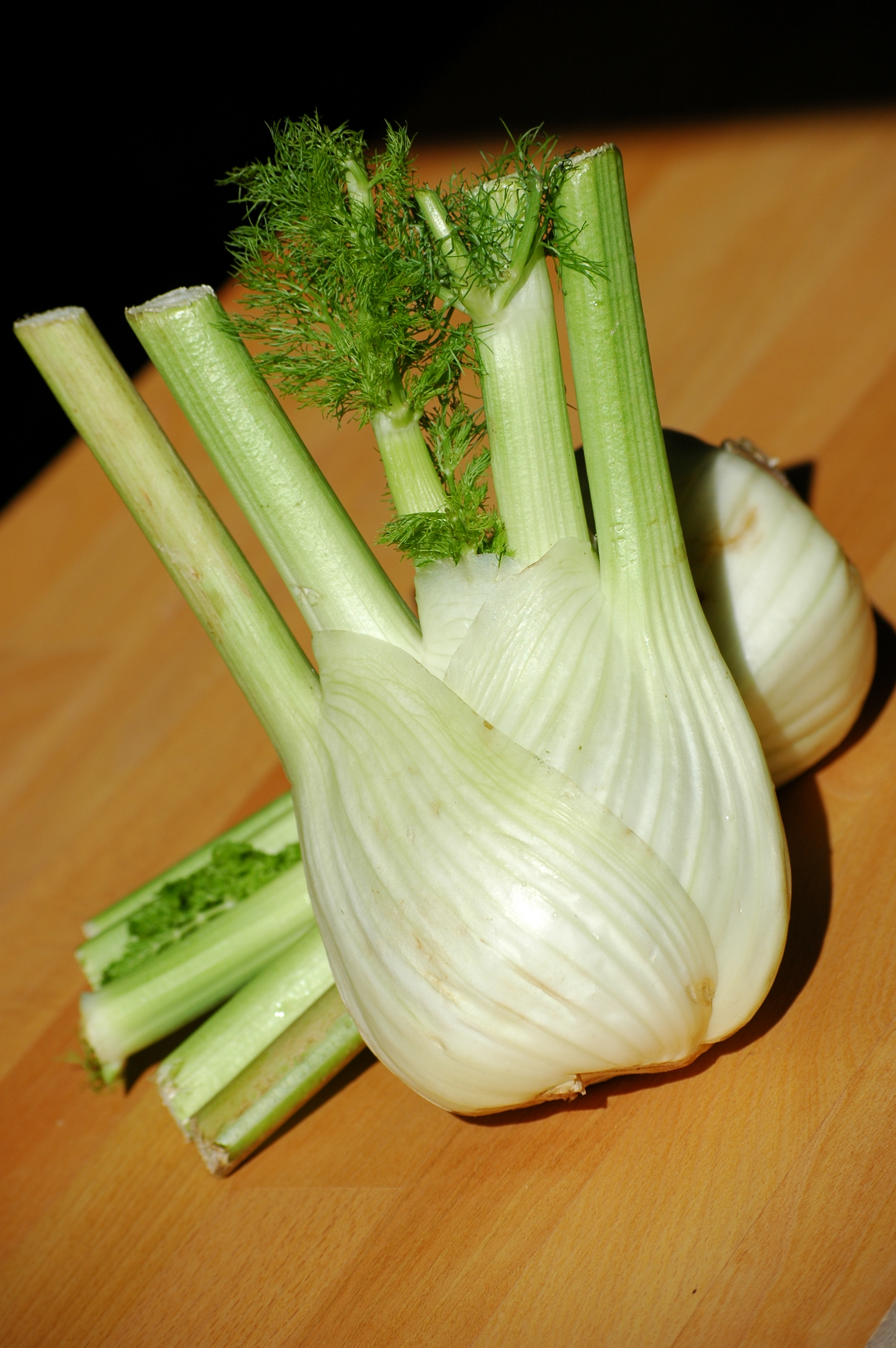 Fennel